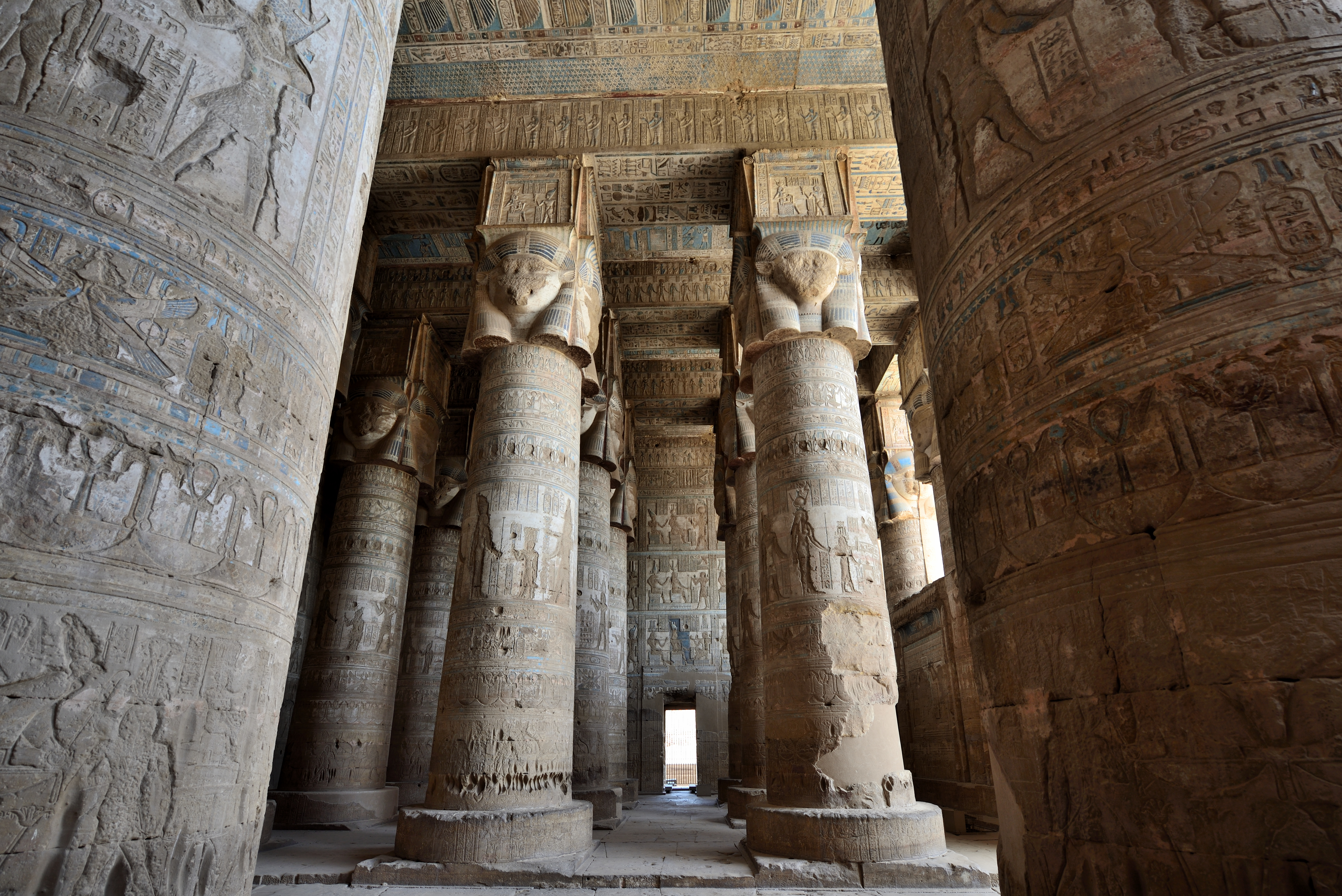 Hypostyle hall of the temple of Hathor at Dendera